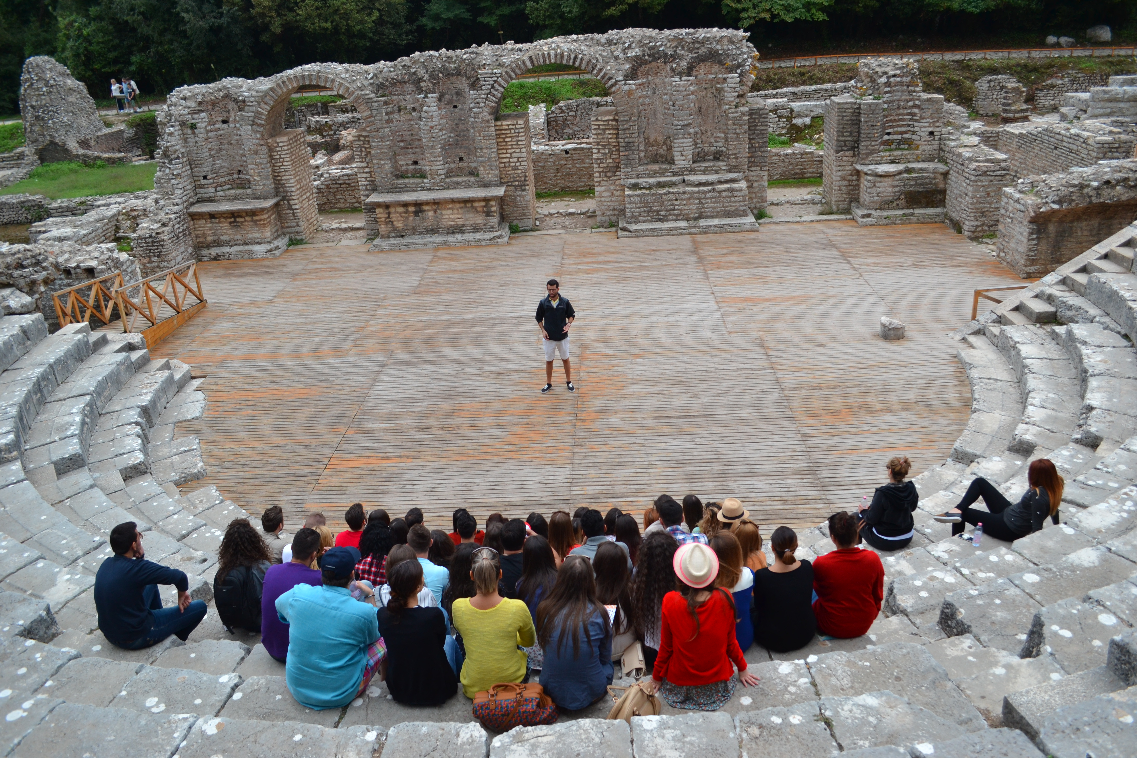 Ænglisc: The theatre og Buthrotum, middle of the 3rd century BC